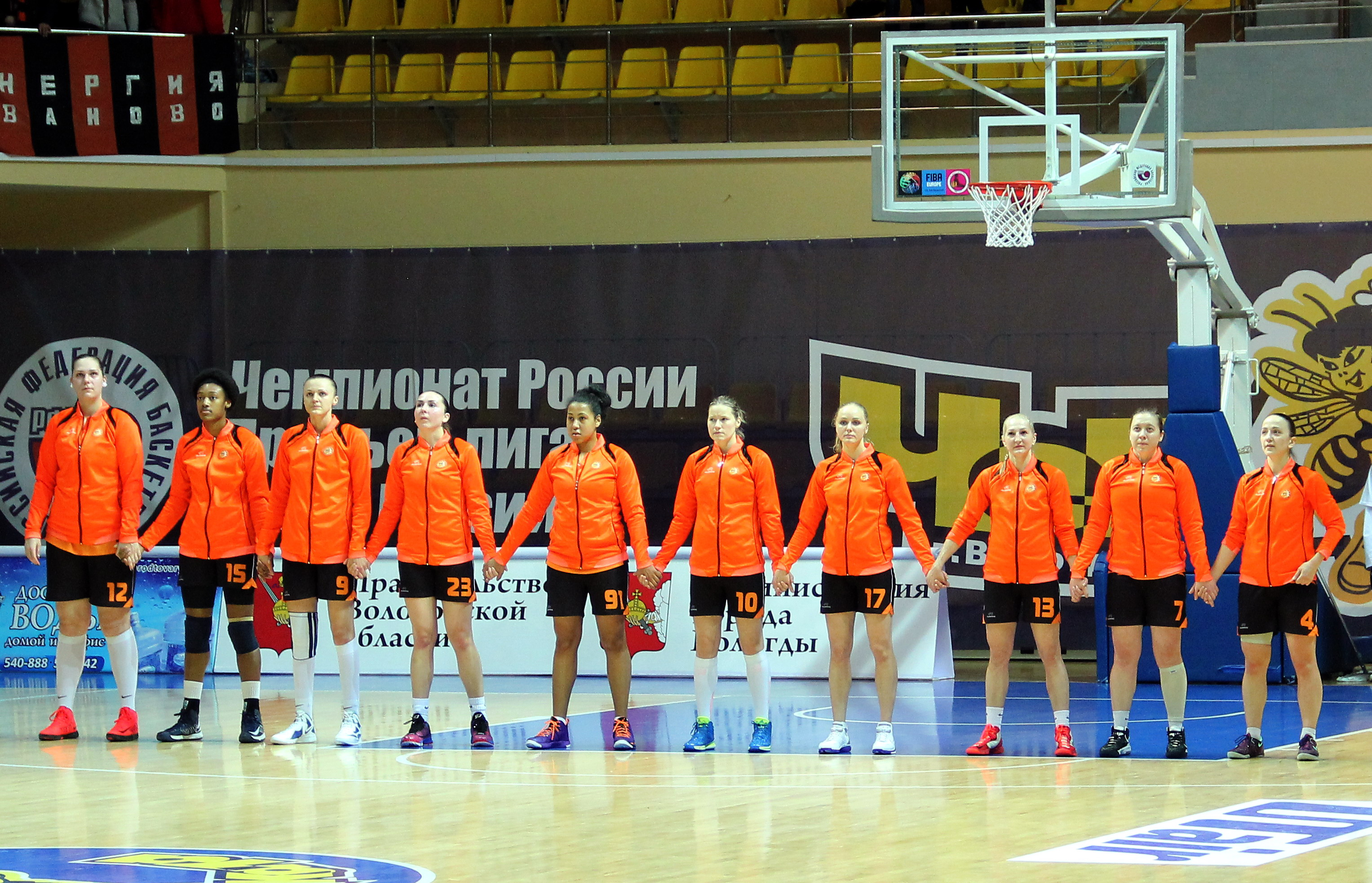 Russia, Women's basketball club «Energia» (Ivanovo)